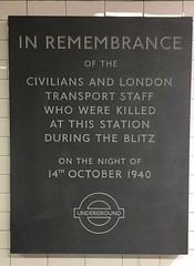 Photo of the third memorial plaque at Balham station, unveiled on 14 October 2016. The two previous memorials are now at the London Transport Museum.